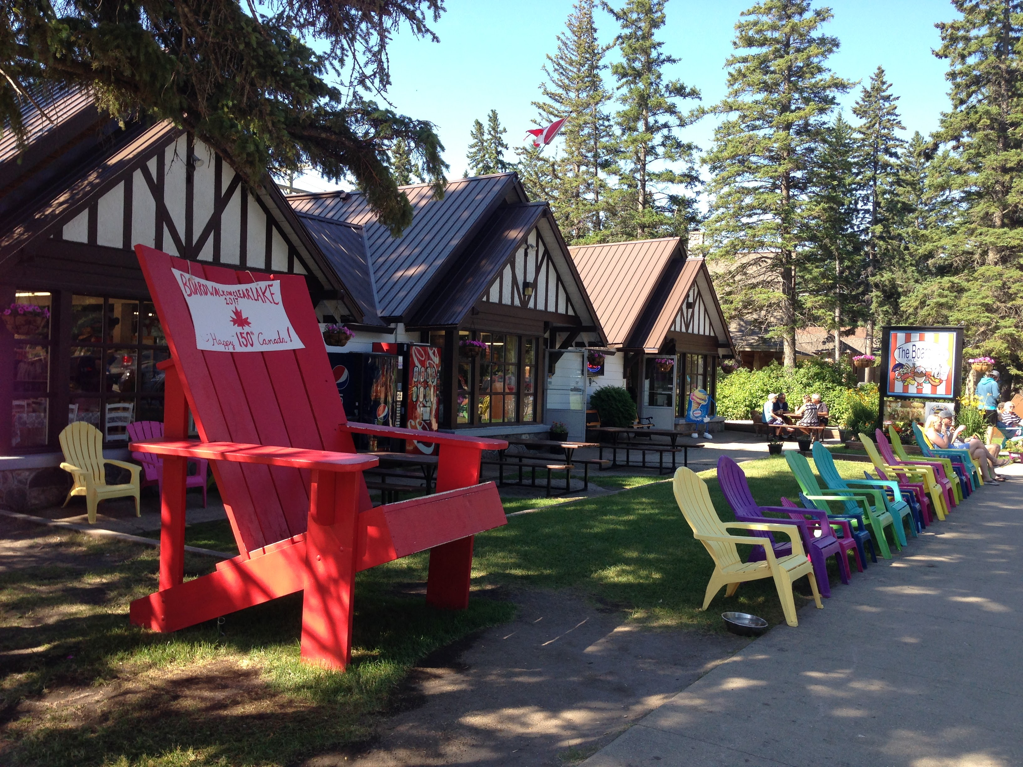 Wasagaming, Manitoba Canada